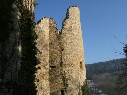 Ruins of Castle of Morimont (Chateau du Morimont, Burg Moersberg), Alsace, France